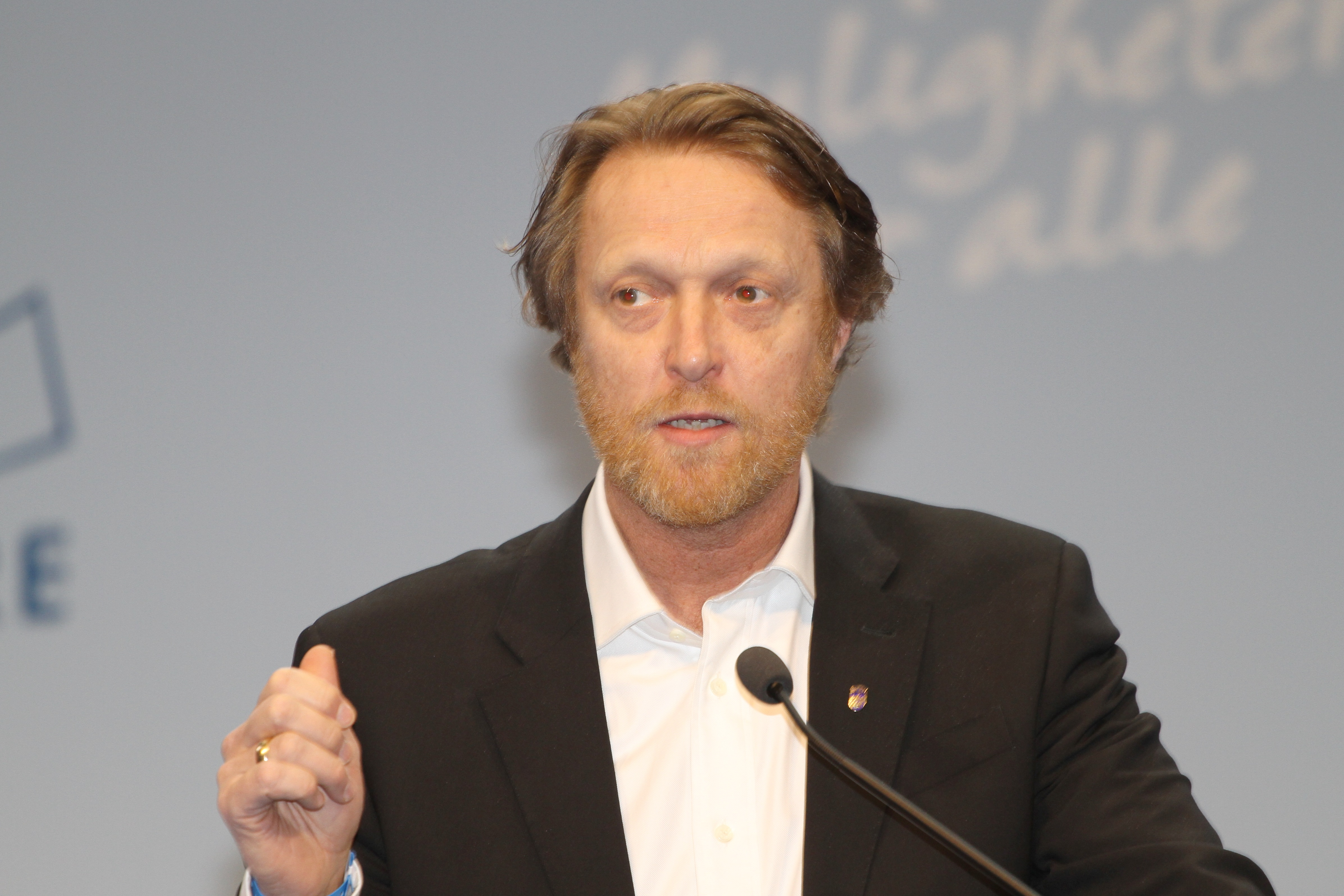 John Peter Hernes